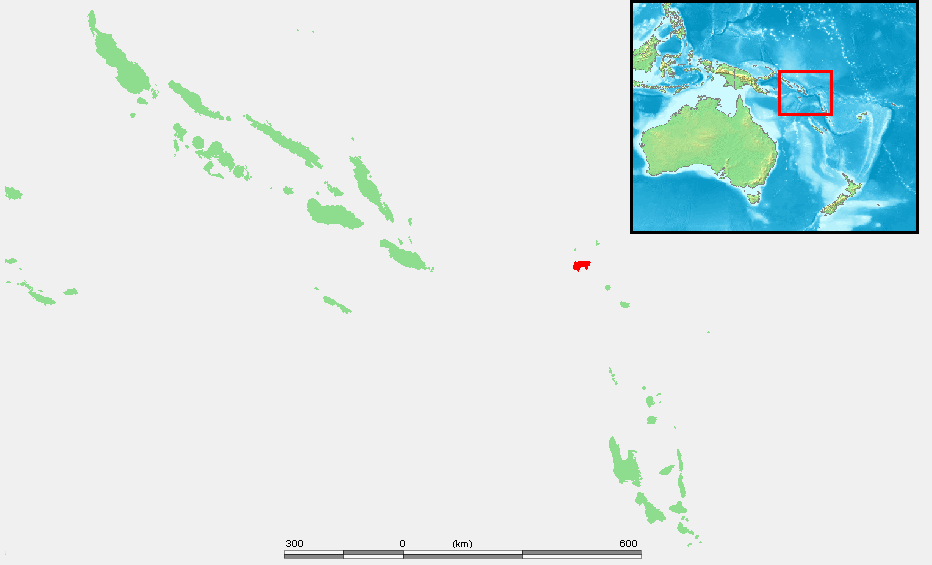 Island of Solomon Islands - Nando.PNG